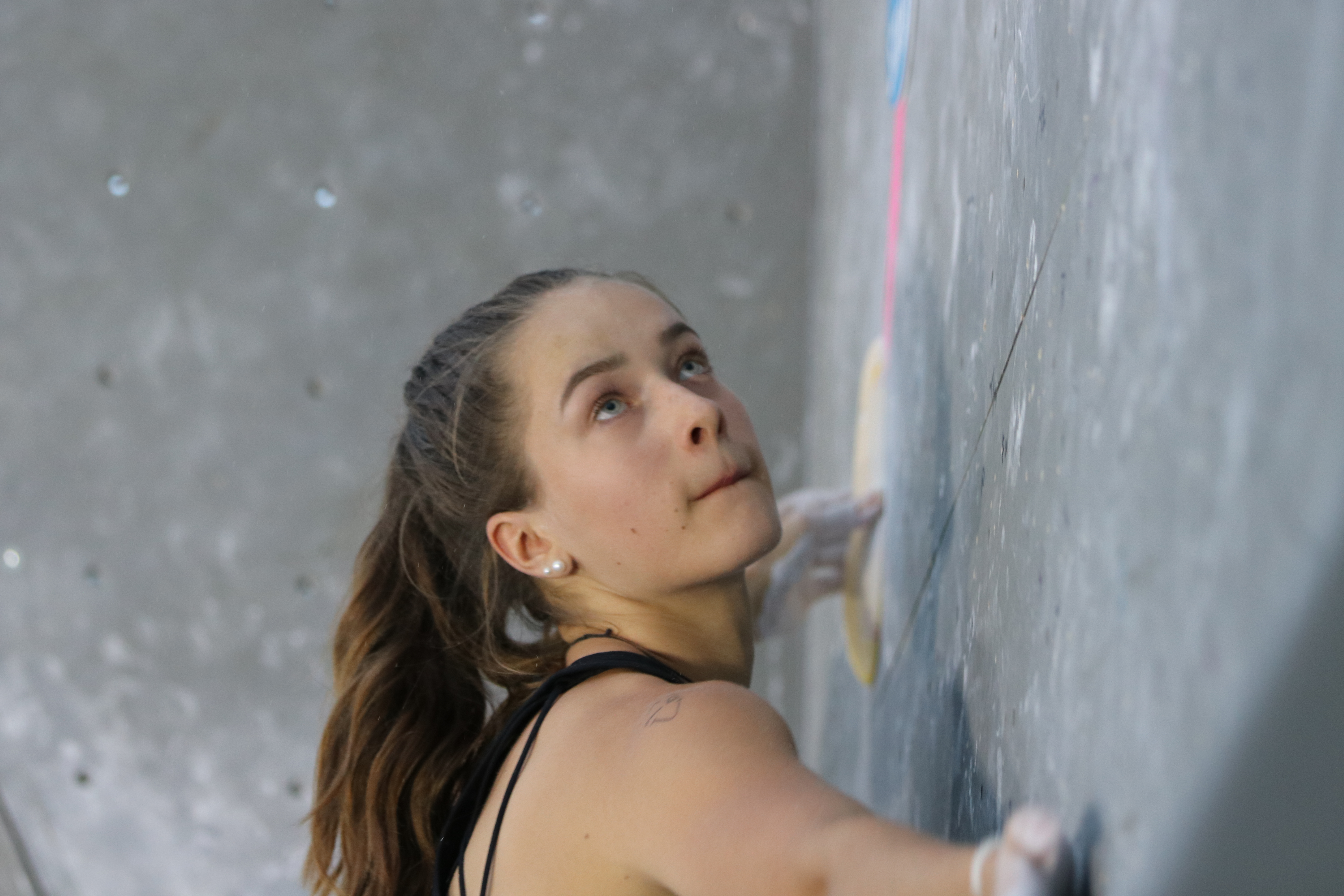 Frederike Fell, GER, at the Boulder Worldcup 2017 in Munich, Germany.